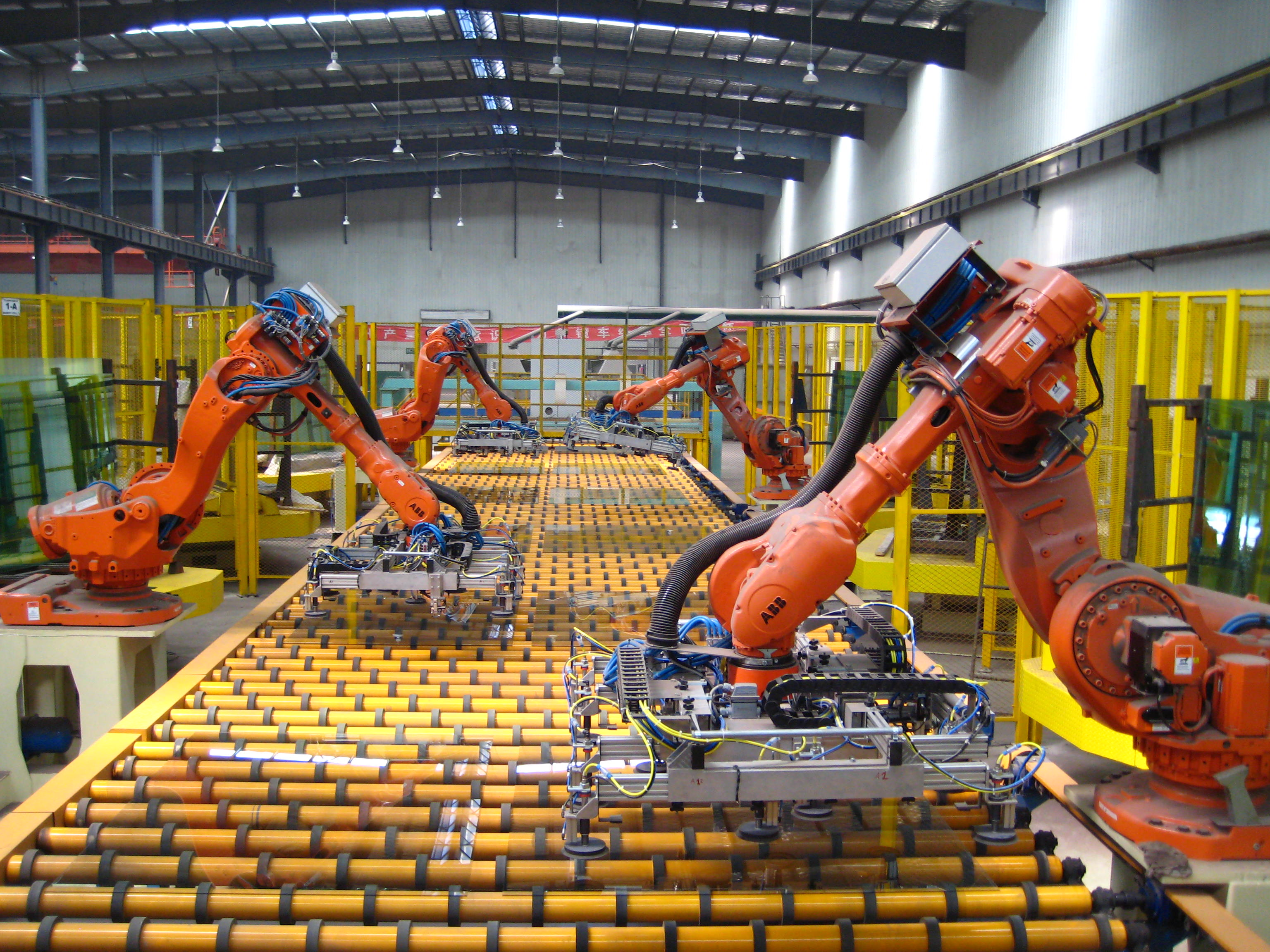 Robotized Float Glass Unloading